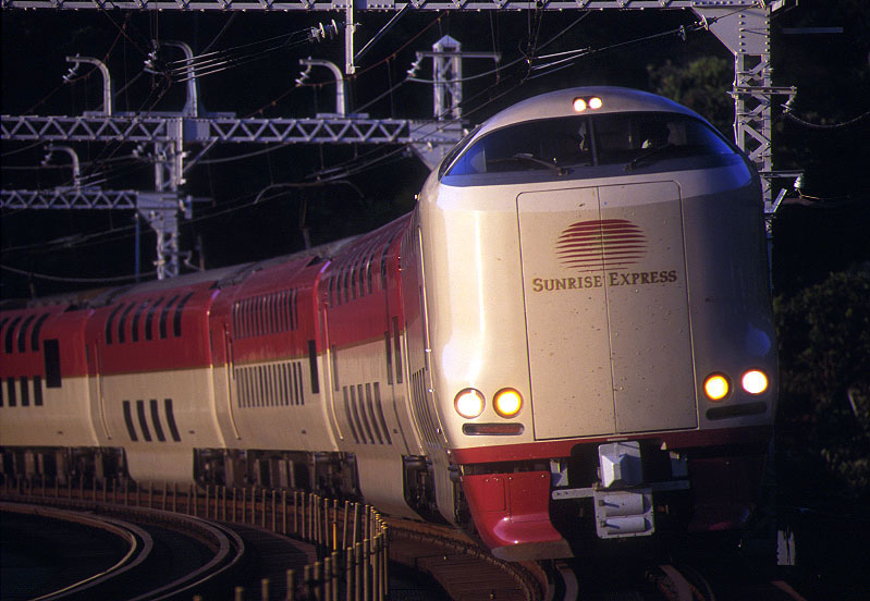 JR-West 285-series EMU on the Tōkaidō Main Line between Hayakawa Station and Nebukawa Station